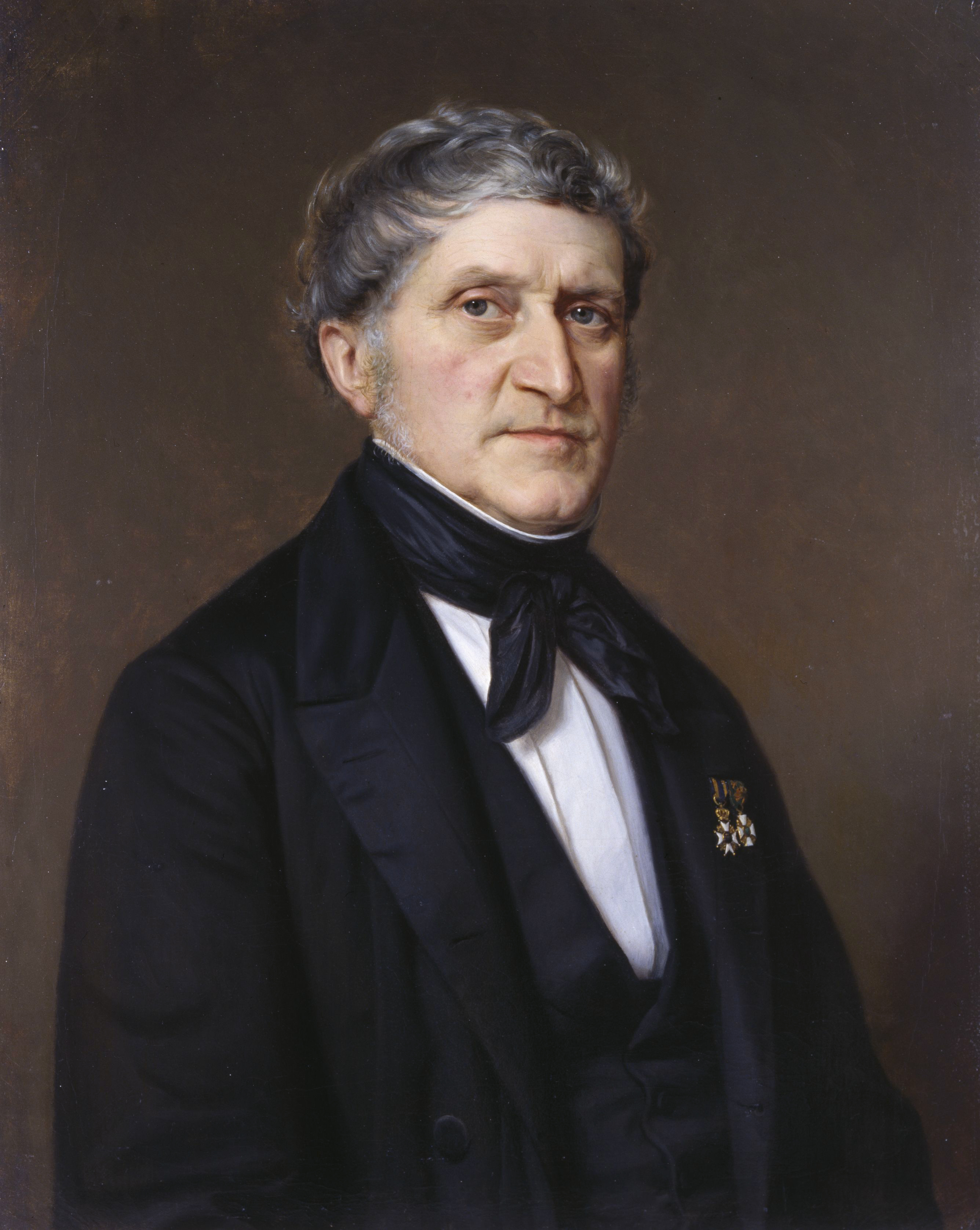 Rombertus Westerhoff oil on canvas 75 x 60 cm circa 1870